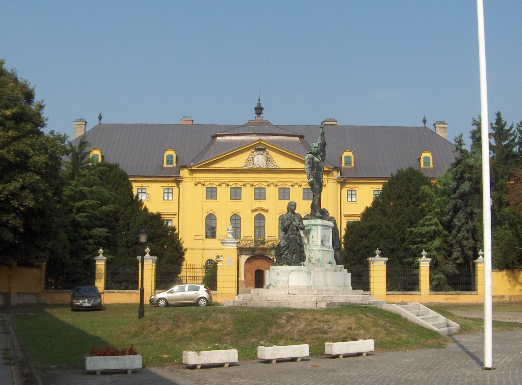 Archbishop's Palace in the city of Kalocsa from the Trinity square